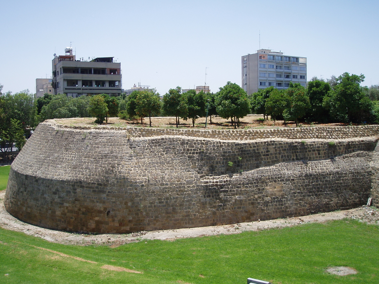 City walls in Nicosia, capital and largest city of Cyprus.